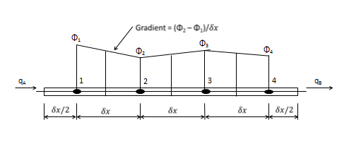 it is basically an illustration of consevativeness